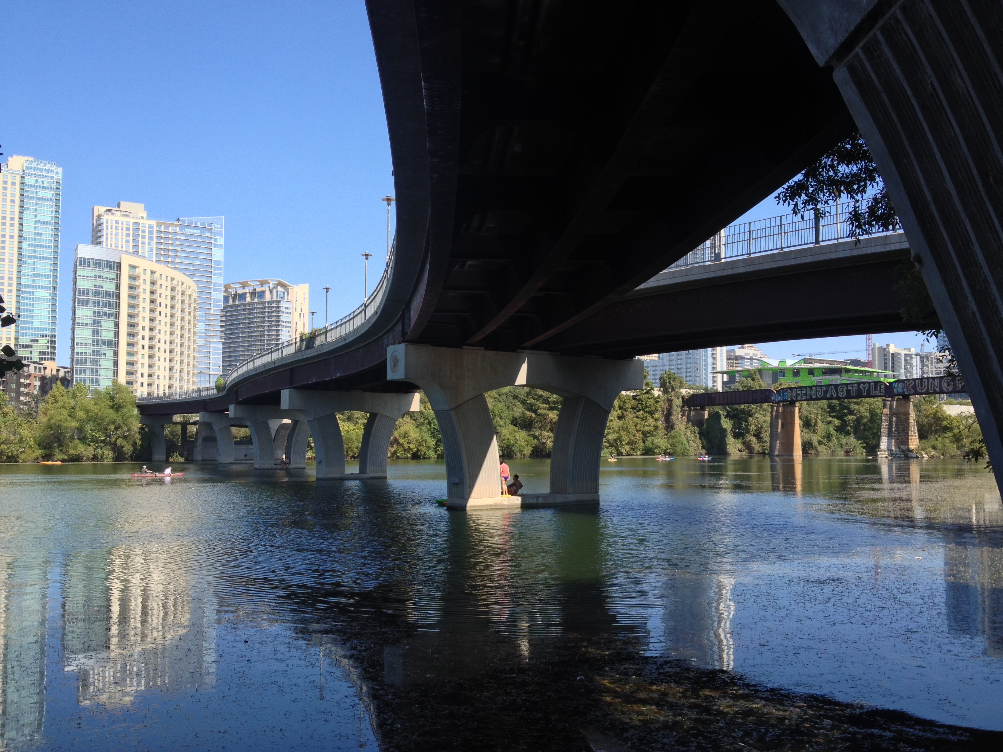 The Pfluger Pedestrian Bridge in Austin, Texas, spanning Lady Bird Lake, viewed from the southwest at shore level.